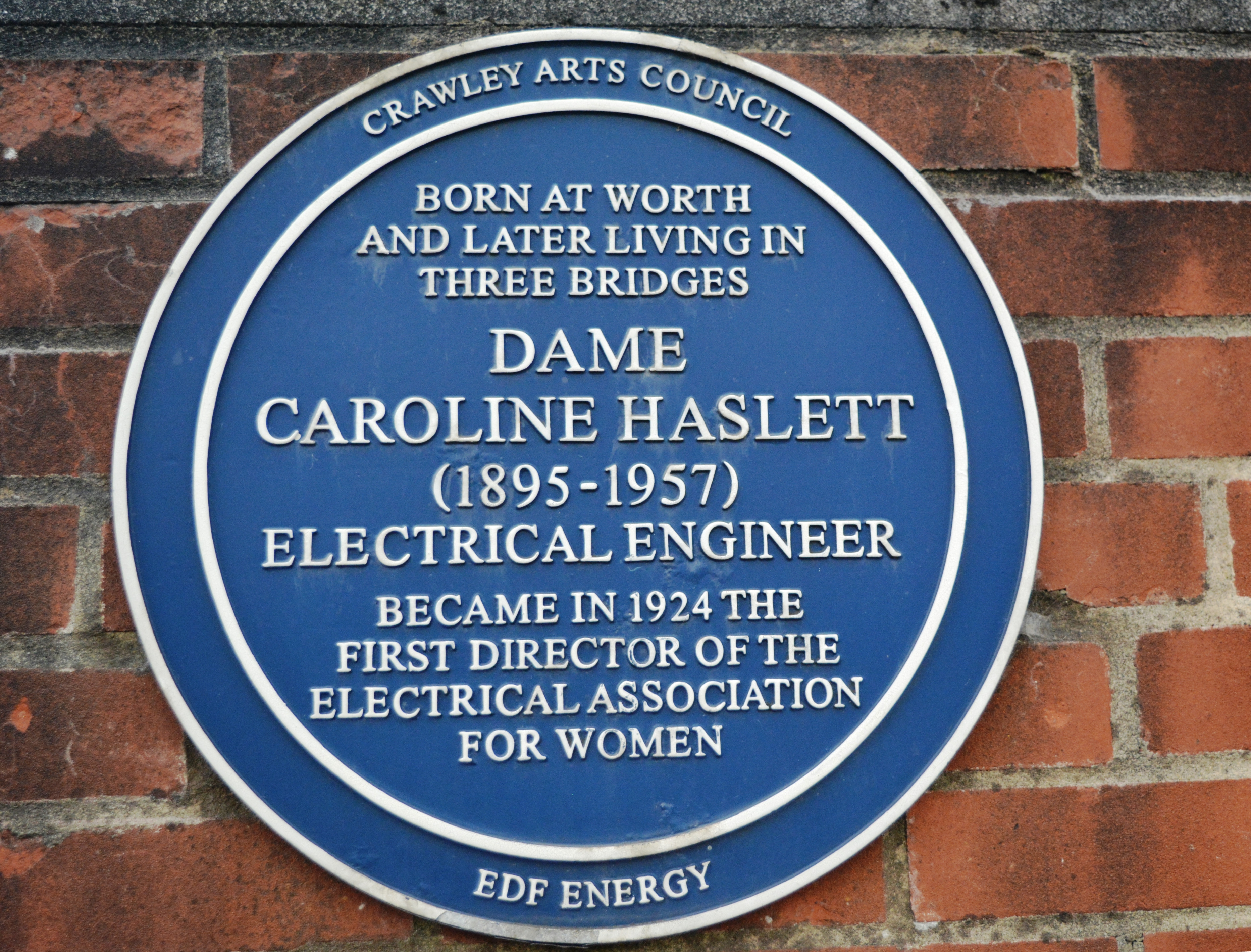 Blue plaque honouring Dame Caroline Haslett, produced by Crawley Arts Council and EDF Energy. Plaque reads: Born at Worth and later living in Three Bridges Dame Caroline Haslett (1895-1957) Electrical Engineer became in 1924 the first director of the Electrical Association for Women